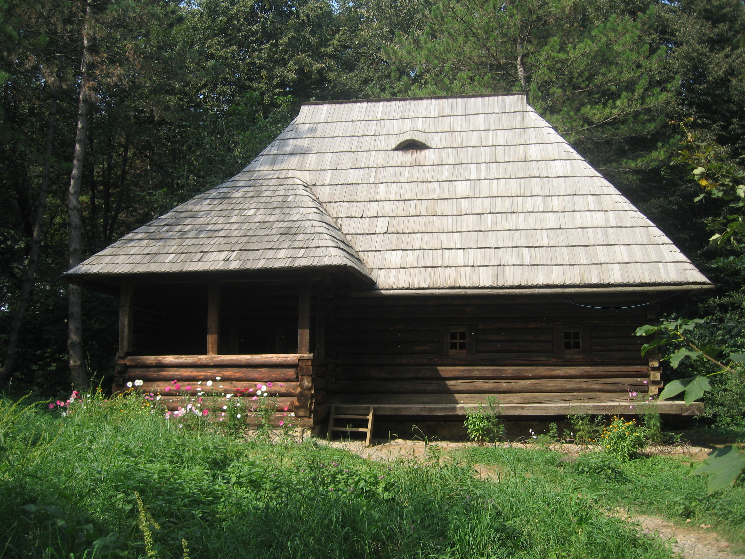 Bukovina Village Museum - The Dorna Candrenilor House, Dorna ethnographic area.